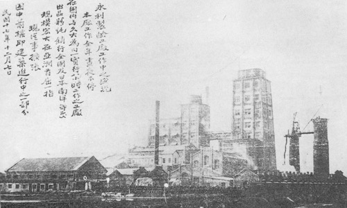 Yongli Soda Plant 1928